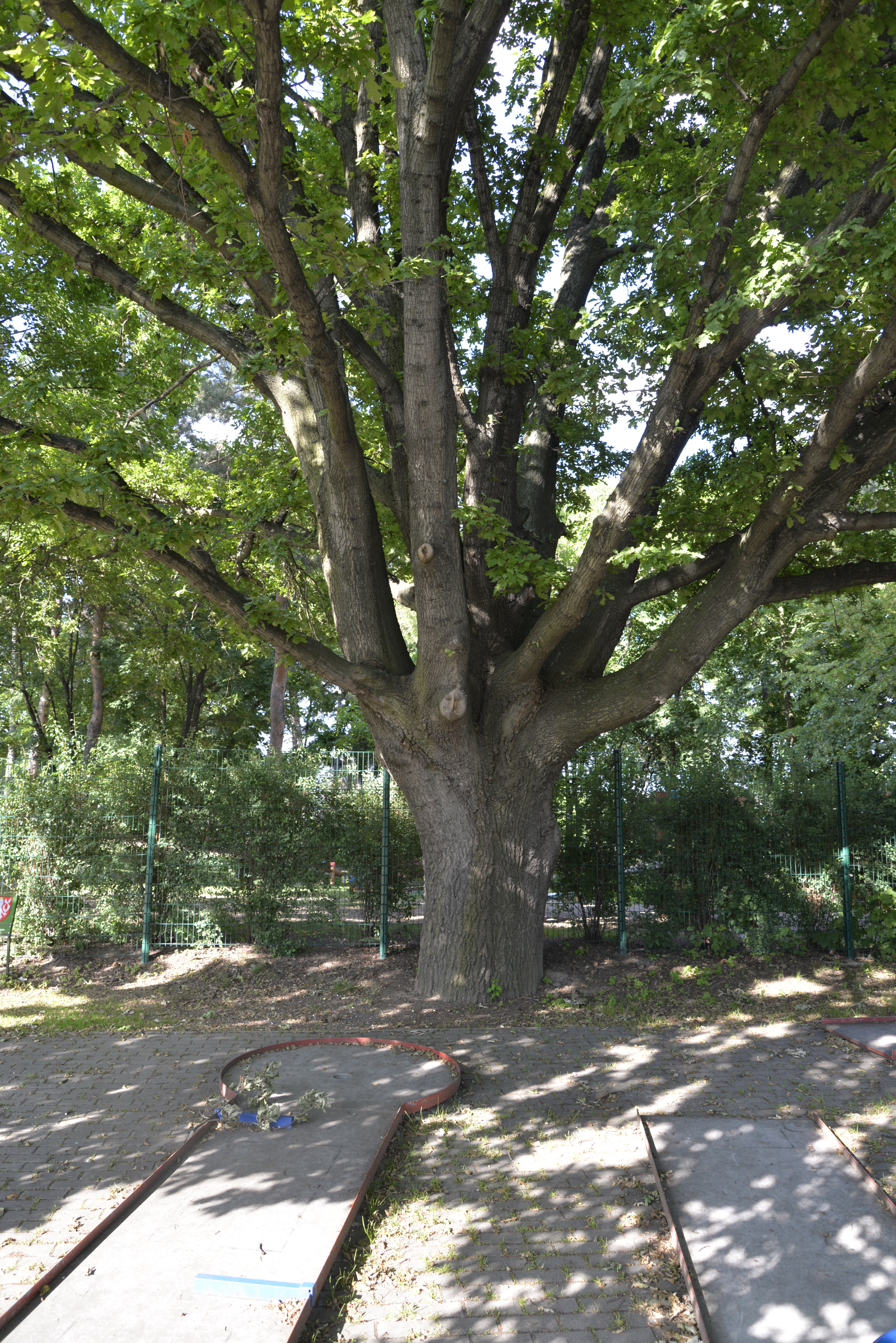 Quercus robur at the sport area at Hanspaulka, Praha, Dejvice